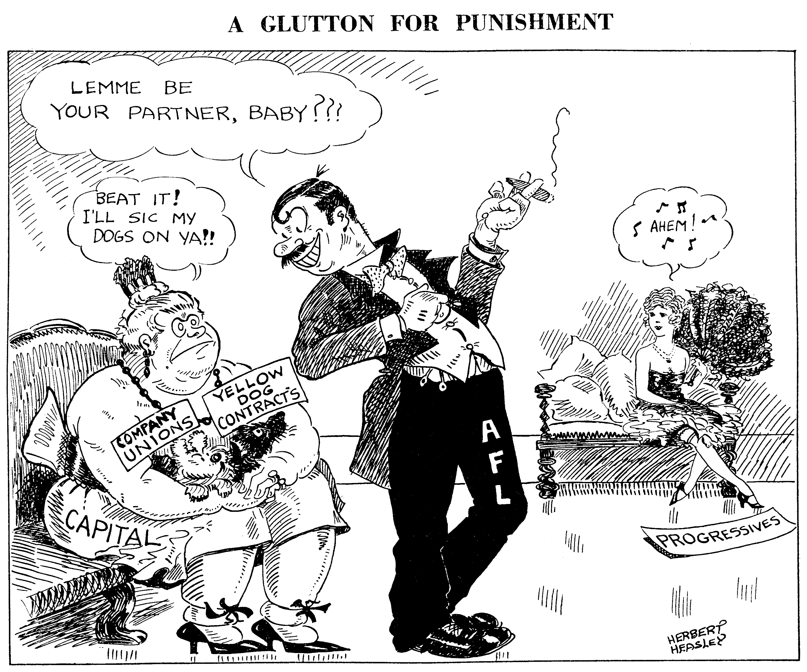 Cartoon "A Glutton for Punishment"